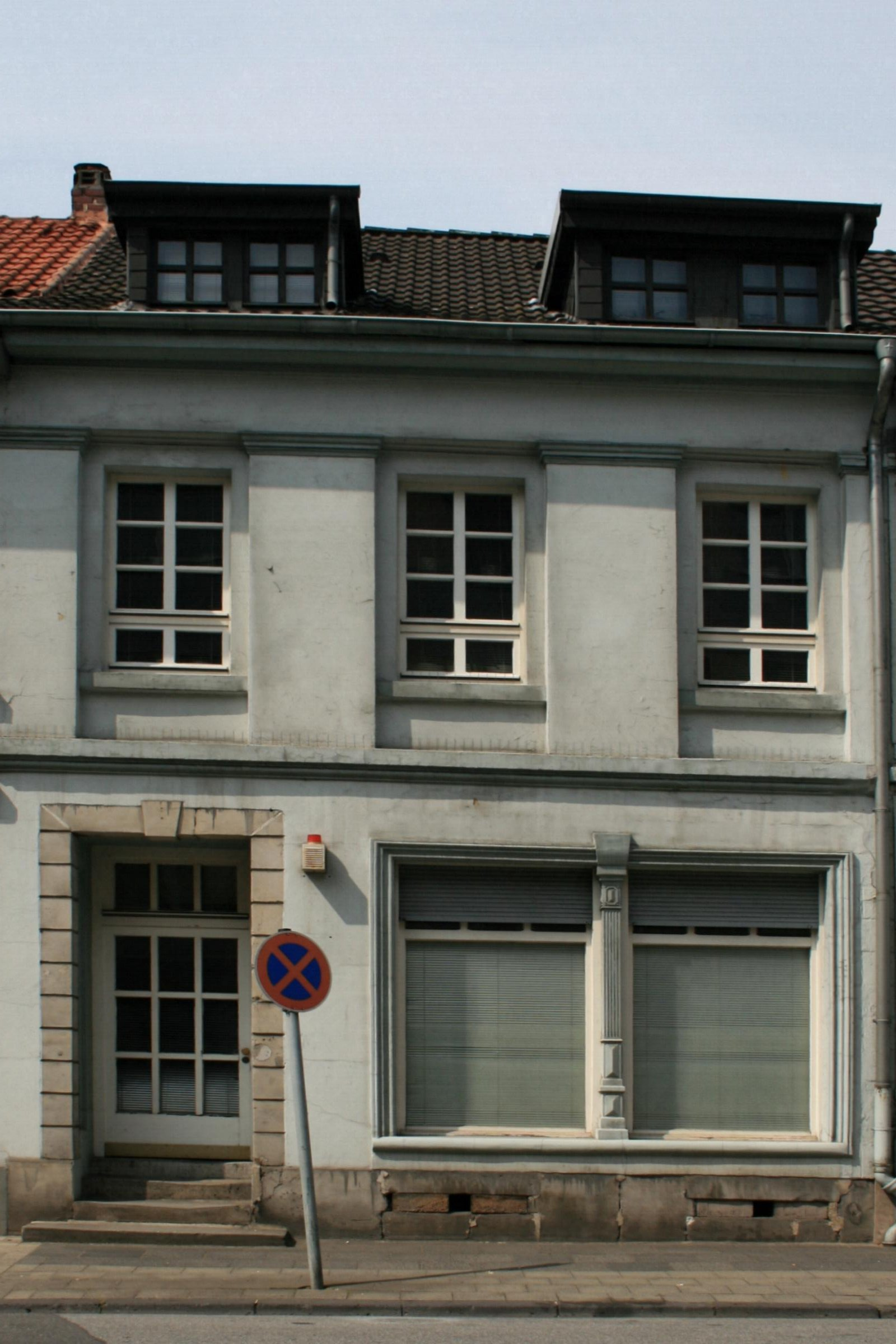 Cultural heritage monument No. F 015 in Mönchengladbach